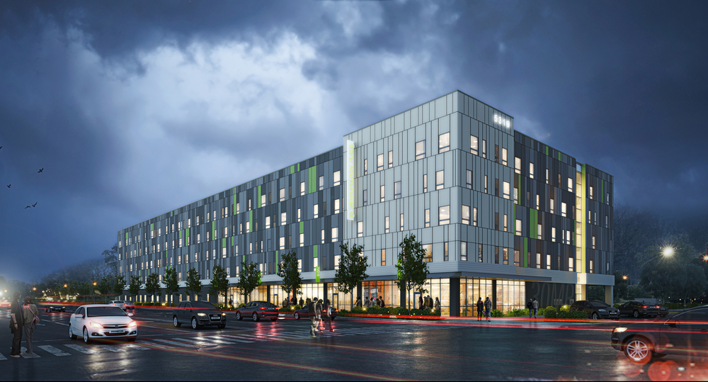 $20 million development on the former site of a beloved Omaha eatery, Mister C's.